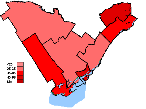 Map made by uploader (User:Earl Andrew); see [1] (question about source) and [2] (response).